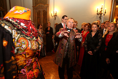 MILAN. At the ‘Russian Evening 2008’. Viewing an exhibition of items from the collection of Russian fashion designer Vyacheslav Zaitsev.